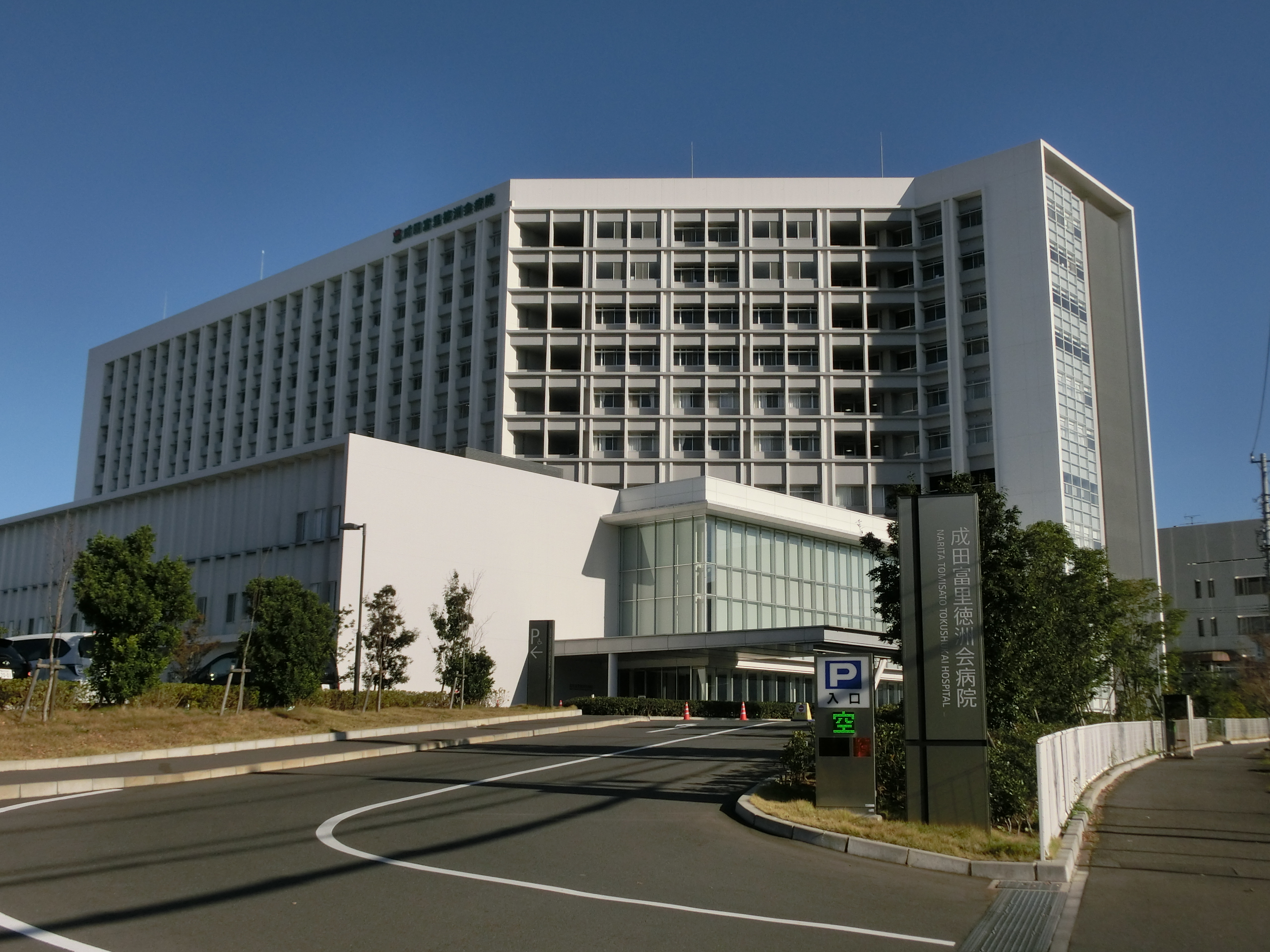 Narita Tomisato Tokushukai Hospital